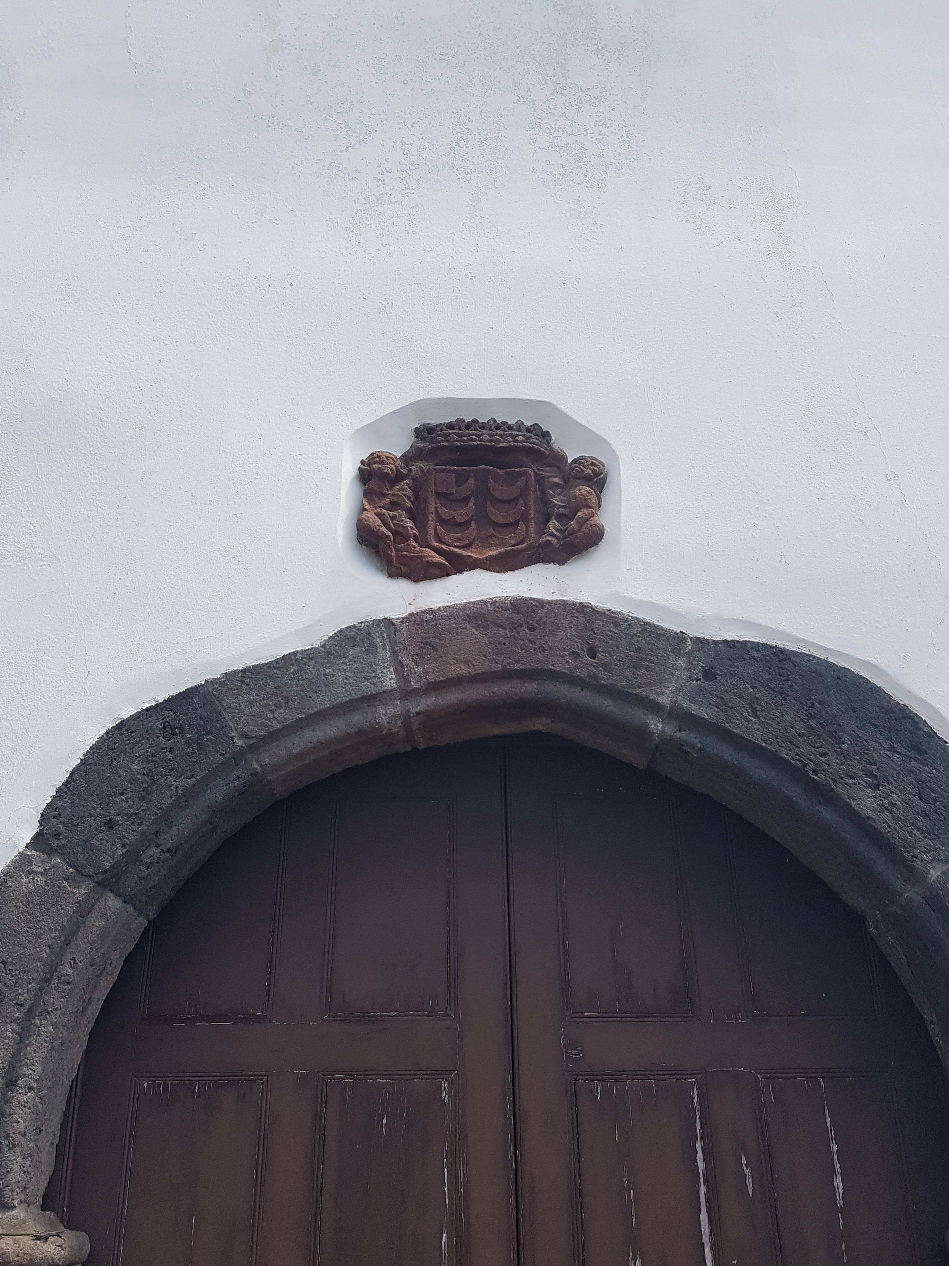 Coat of Arms of the Chapel of the Reis Magos.